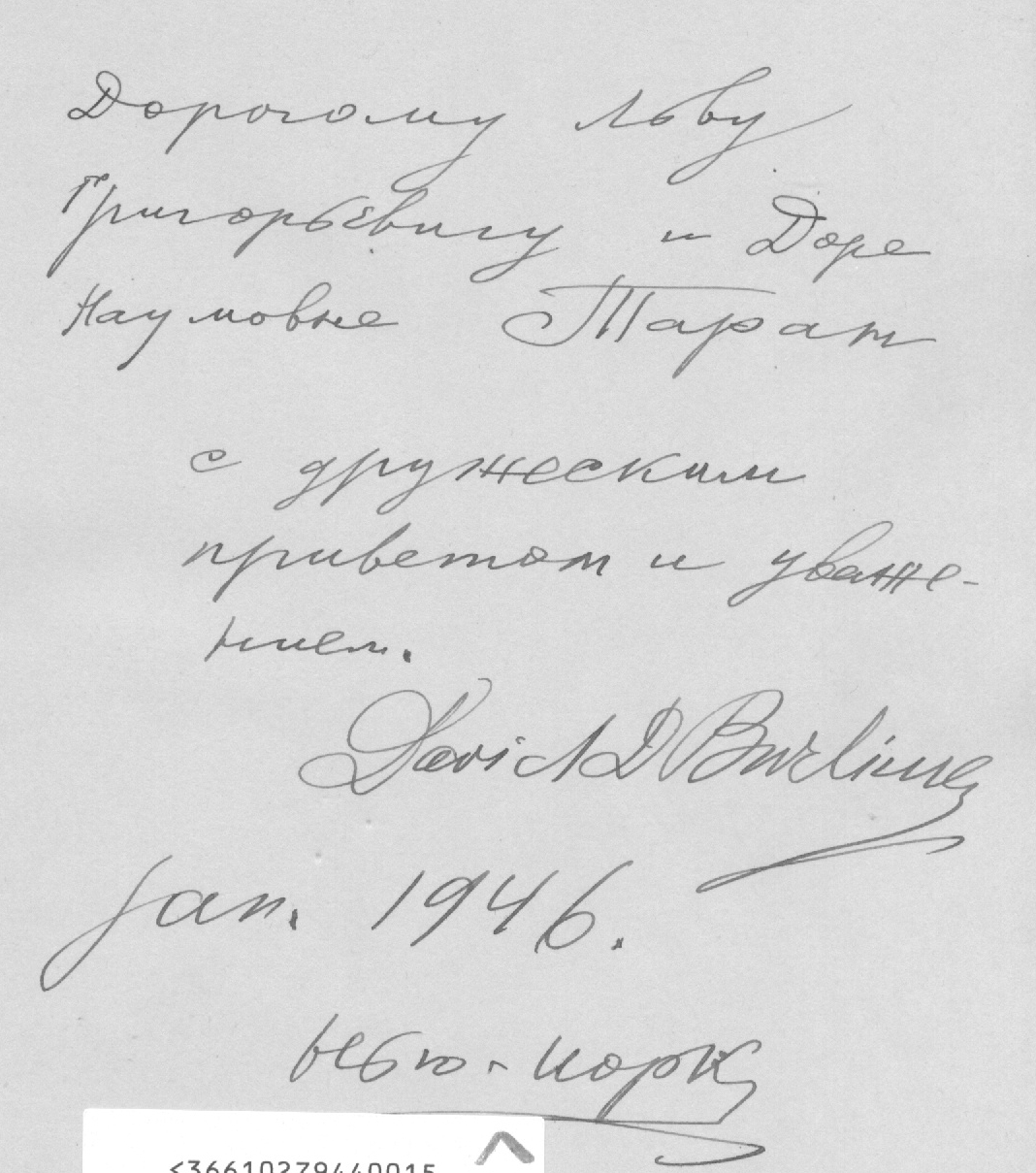 autograph by david burliuk with personal dedication in russian. 1946